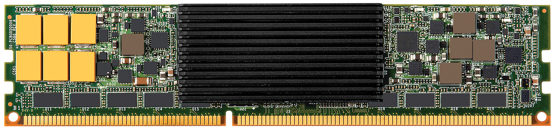 FlashDIMM Front